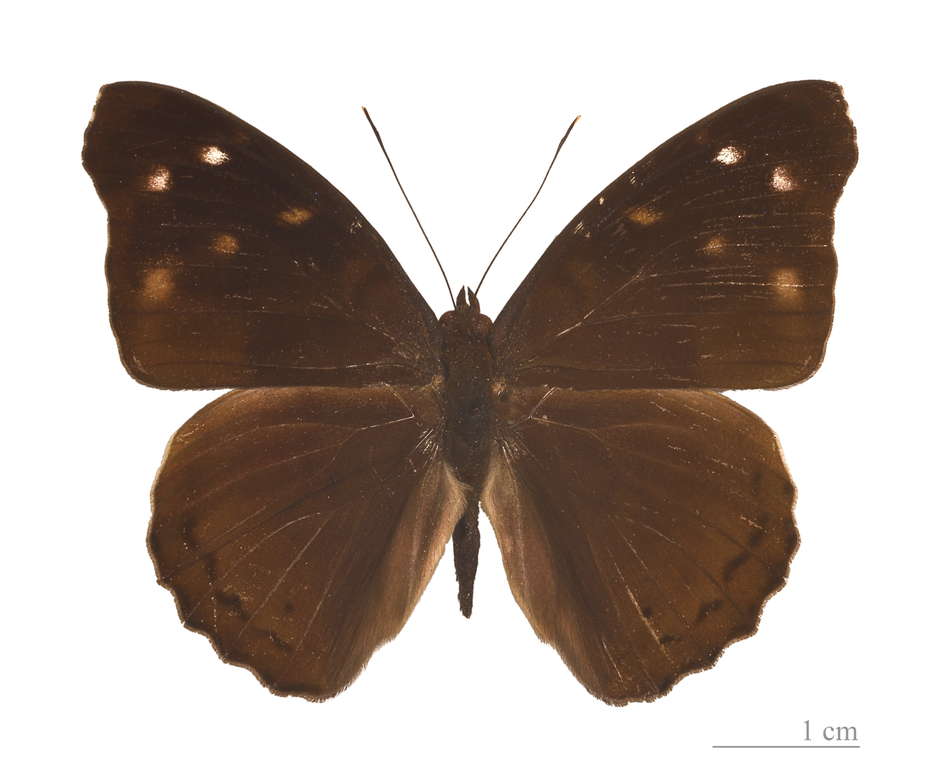 ♂ - Two views of same specimen Locality: Caranavi Province, Bolivia